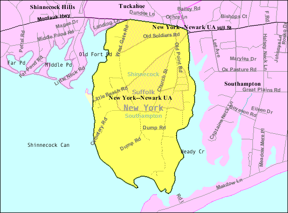 U.S. Census 2000 reference map for Shinnecock Reservation